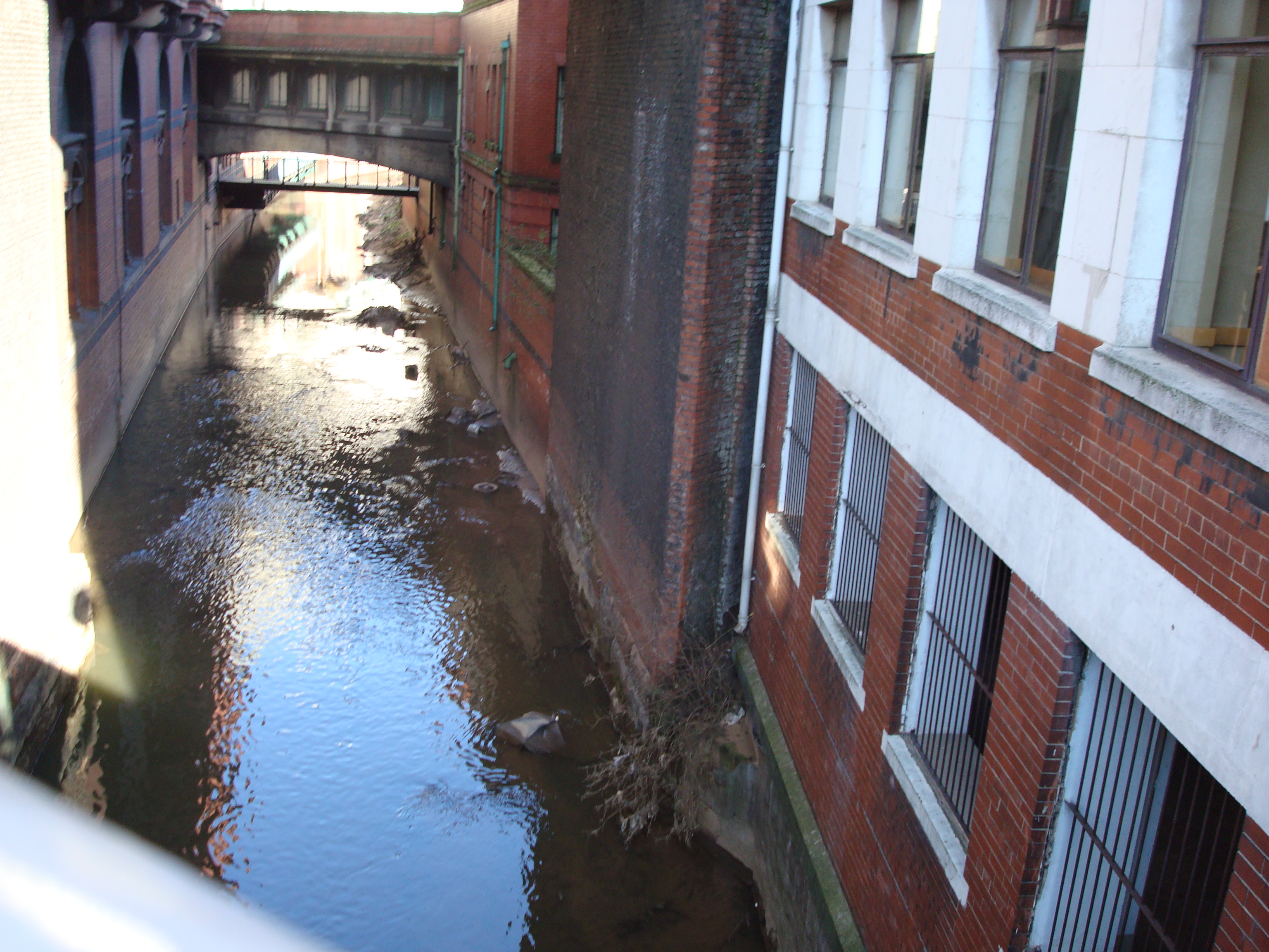 River Medlock running under Oxford Road/Oxford Street, Manchester. S Knights, my photo, 10 Feb 2008